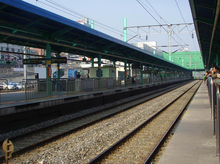 Bupyeong Station platform (Gyeongin Line)